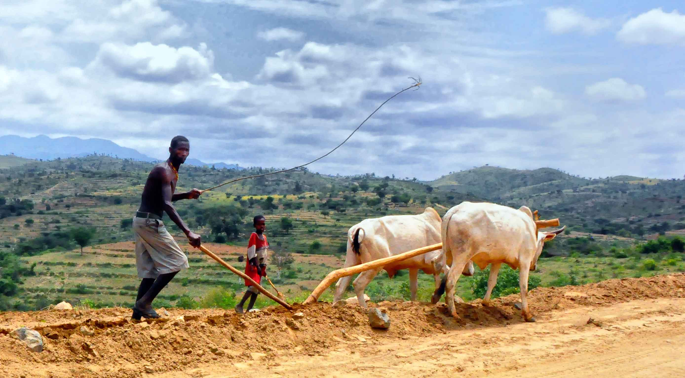 Ethiopia, in the wet season was just bursting with crops worked 3 times with this simple but effective plough.